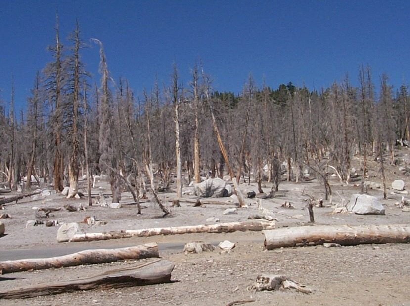 Mammoth Mountain produces tons of carbon dioxide, and kills trees in an area on its south slopes. Photograph taken from the parking lot at Horseshoe Lake